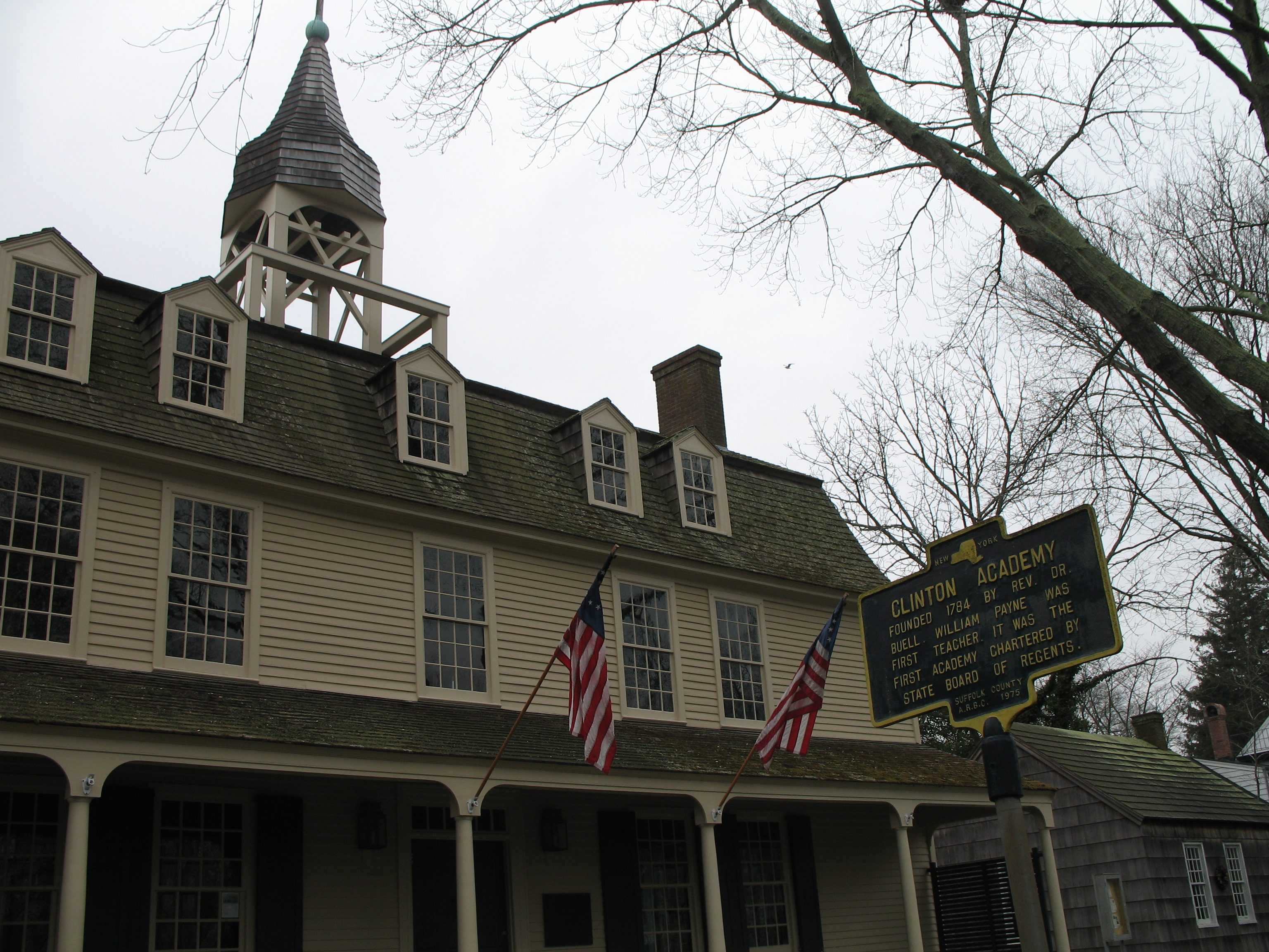 Clinton Academy in East Hampton, New York. Photo by poster in January 2007.